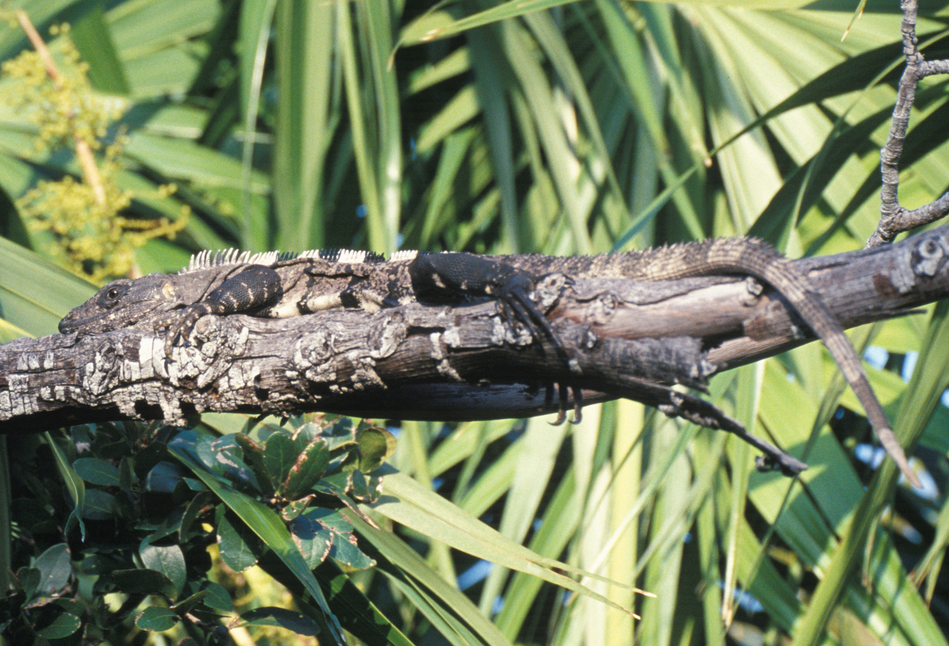 Mexican Spiny-tailed Iguana (Ctenosaura pectinata). Caye Caulker, Belize.